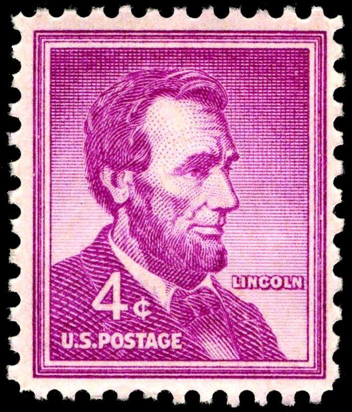 Image of US Postage stamp, issued 1954, depicting Abraham Lincoln